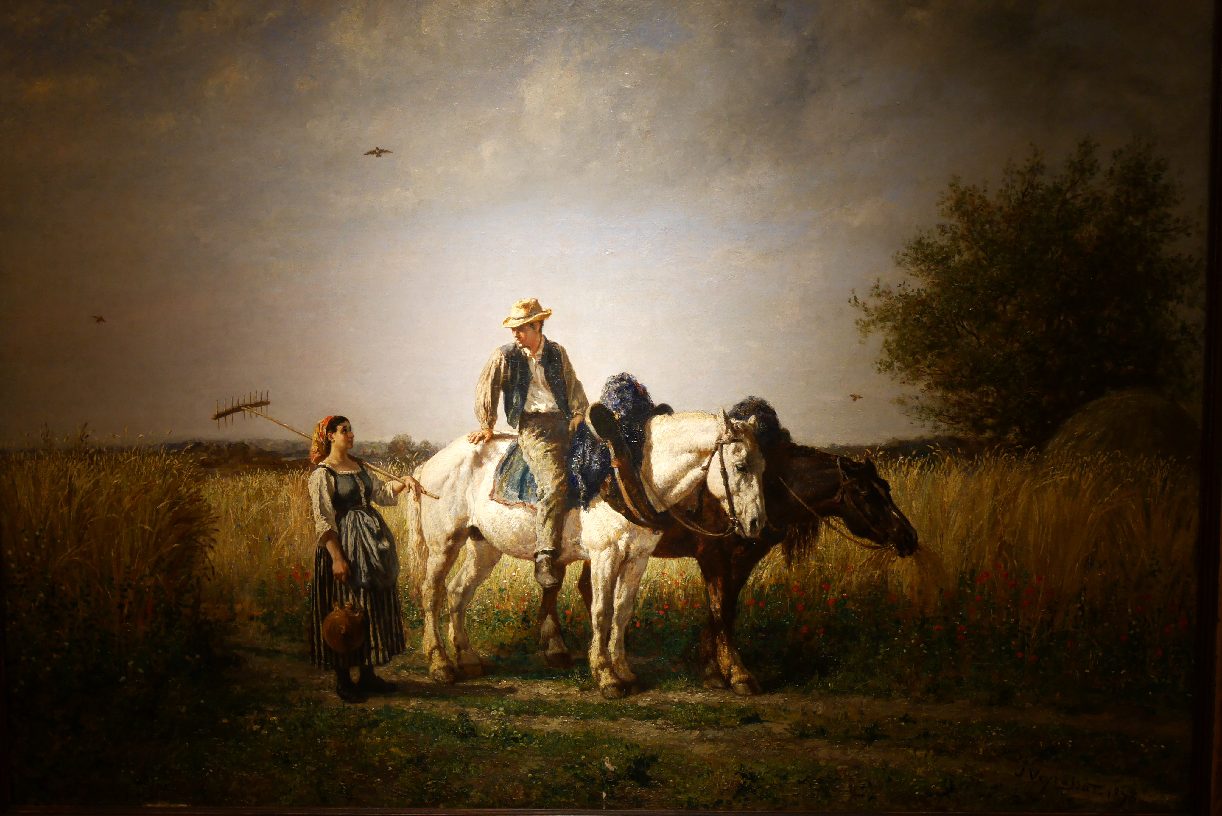 Jules Jacques Veyrassat, Le retour des champs